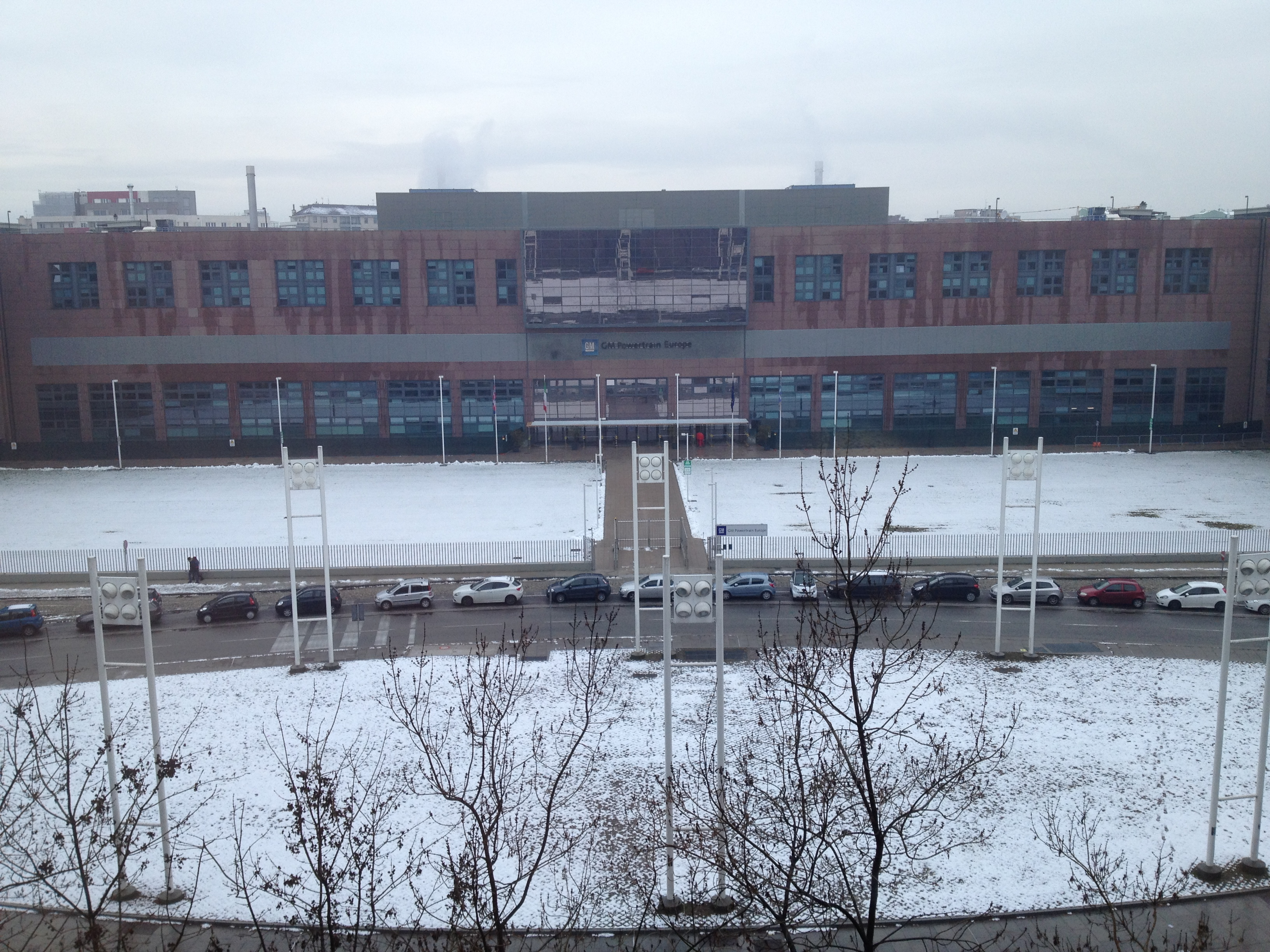 GM Power Train Europe